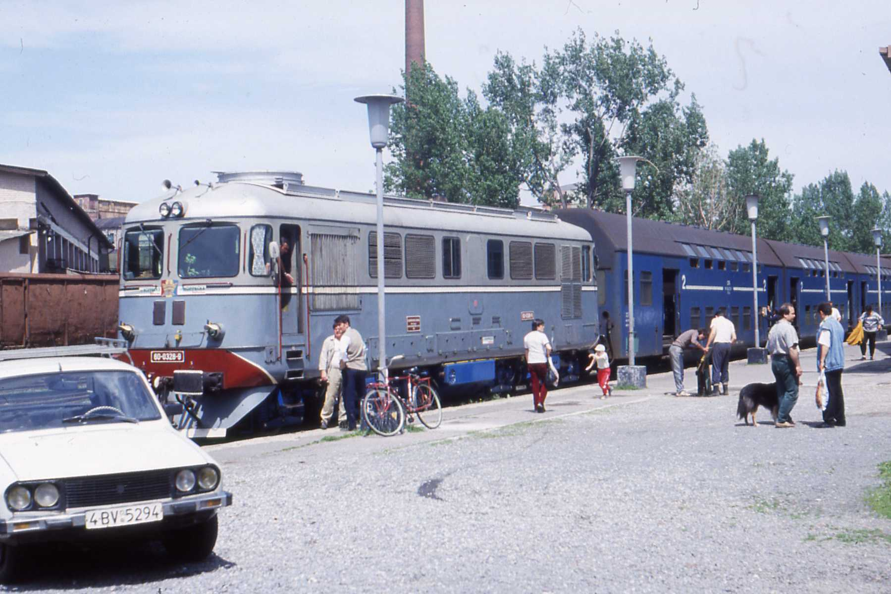 The terminus of the branch line from Brasov. Mid way along the line was a sinister factory guarded by many watch towers, which was served by sidings from it. These were 2100hp Co-Co locomotives with Sulzer engines, class 060 DA of swiss design but built by Electroputere of Craiova. Over 1400 were bought by CFR Romania railways, plus others by Industrial concerns. The above locomotive is probably still in service. See this modern photo of a much scruffier locomotive The car is a Dacia with Brasov region registration